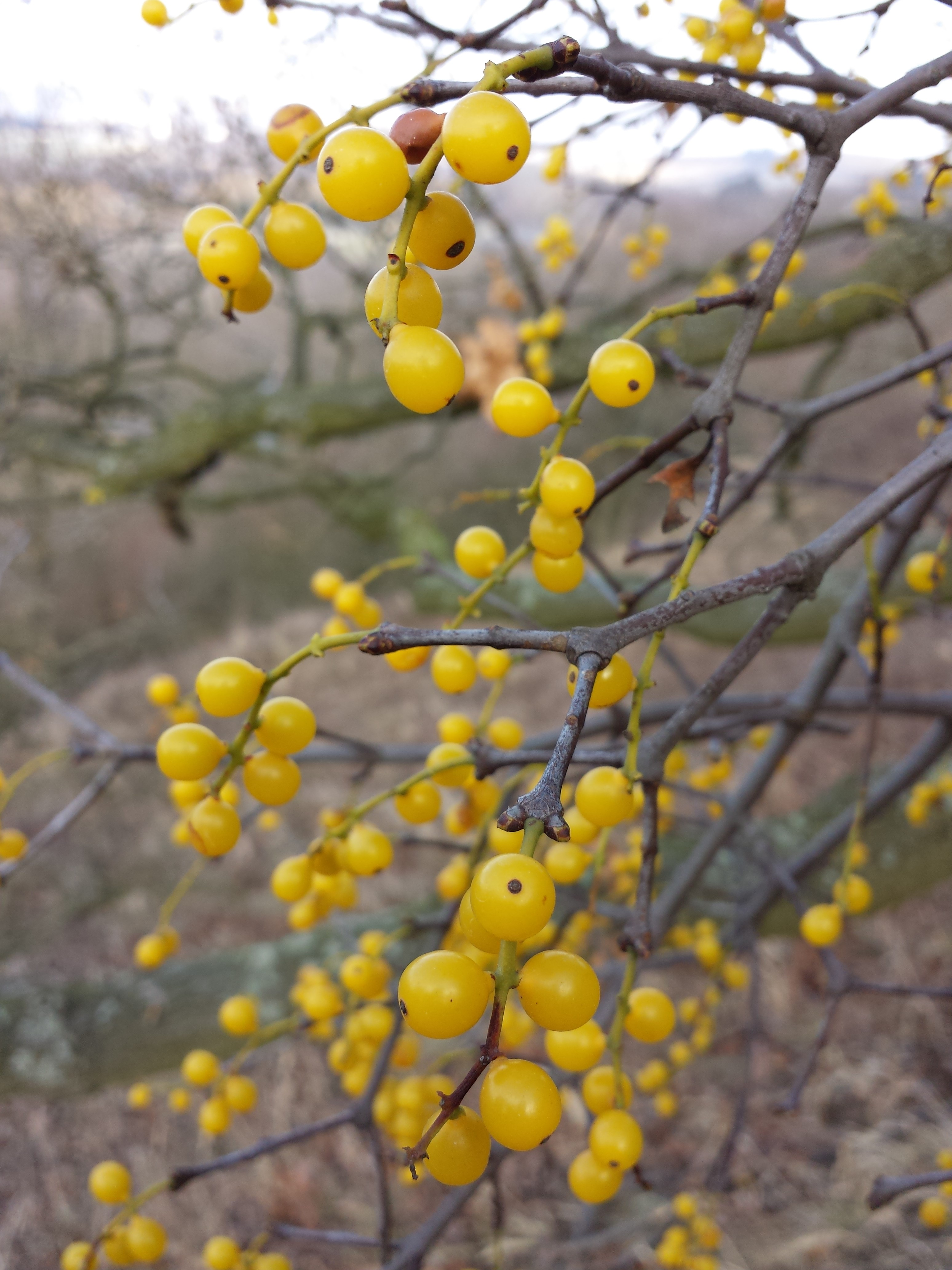 Berries Taxon: Loranthus europaeus on Quercus sp. (sensu Fischer et al. EfÖLS 2008 ISBN 978-3-85474-187-9) Location: Wartberg near Ulrichskirchen, district Mistelbach, Lower Austria - ca. 240 m a.s.l. Habitat: dry grassland